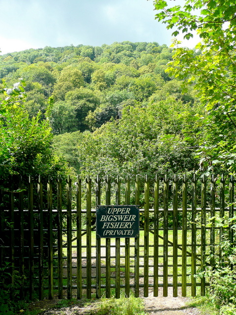 That means you can't get in! The English, eastern, bank of the Wye is completely private. The Wye Valley Walk takes the western side; Lower Hael Wood can be seen beyond. View from the A466.